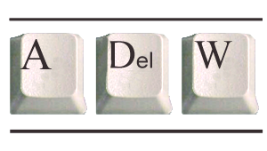 My logo design for the Association of Deletionist Wikipedians.